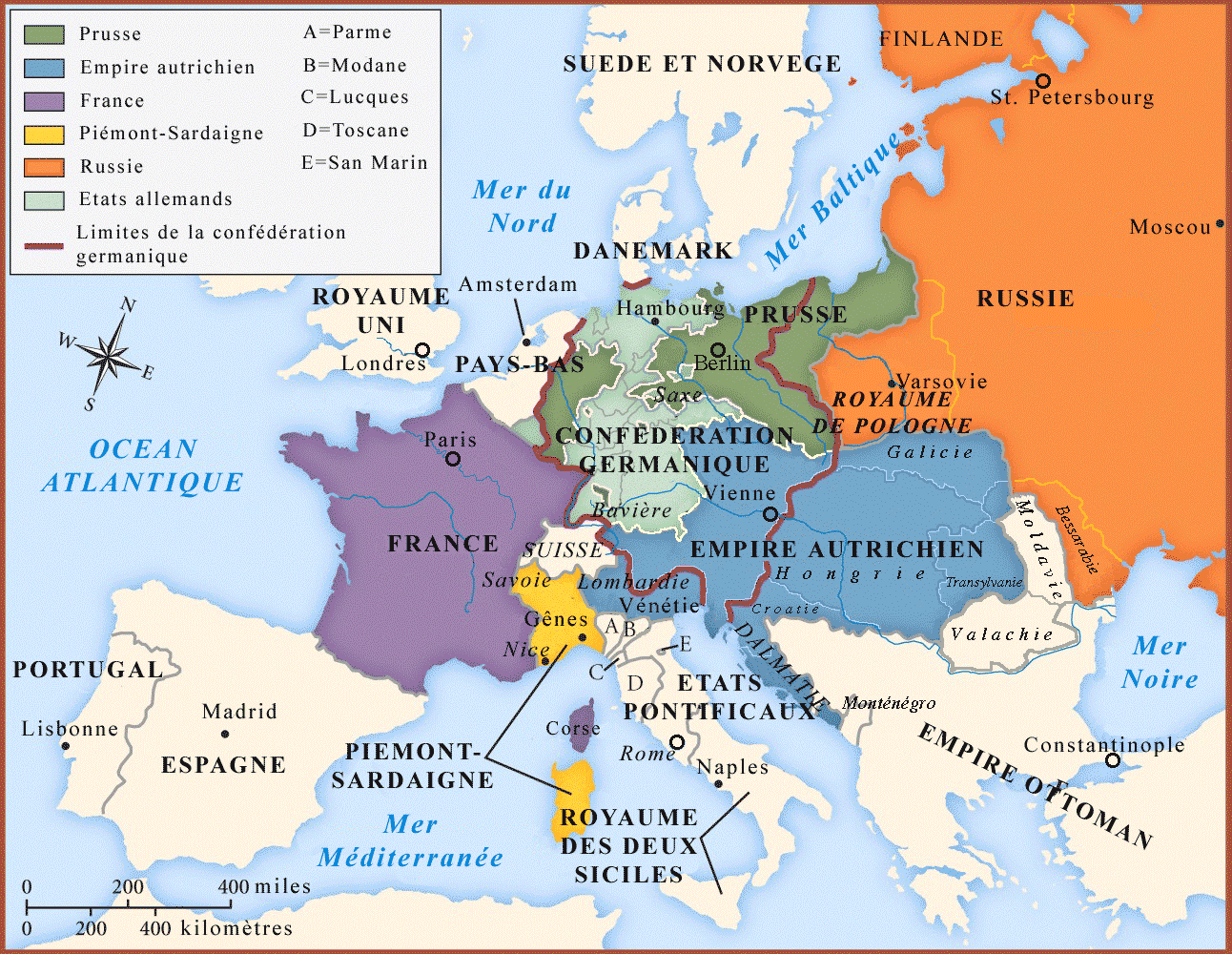 Map of Europe, after the Congress of Vienna, 1815